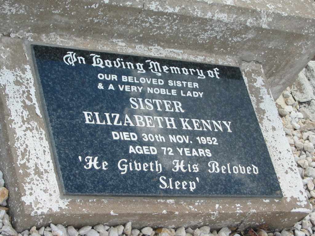 Headstone of Sister Elizabeth Kenny in Nobby cemetery, Clifton Shire, Queensland, Australia. Photo taken by me (Kerry Raymond) on 8 April 2007. User:Staeckerbot/Duplicate-file-info User:Staeckerbot/Duplicate-file-info